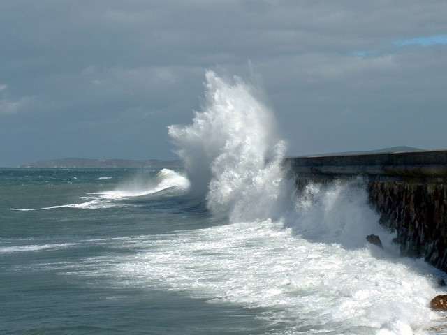 Wave breaking on Holyhead breakwater - this is the section before the first bend